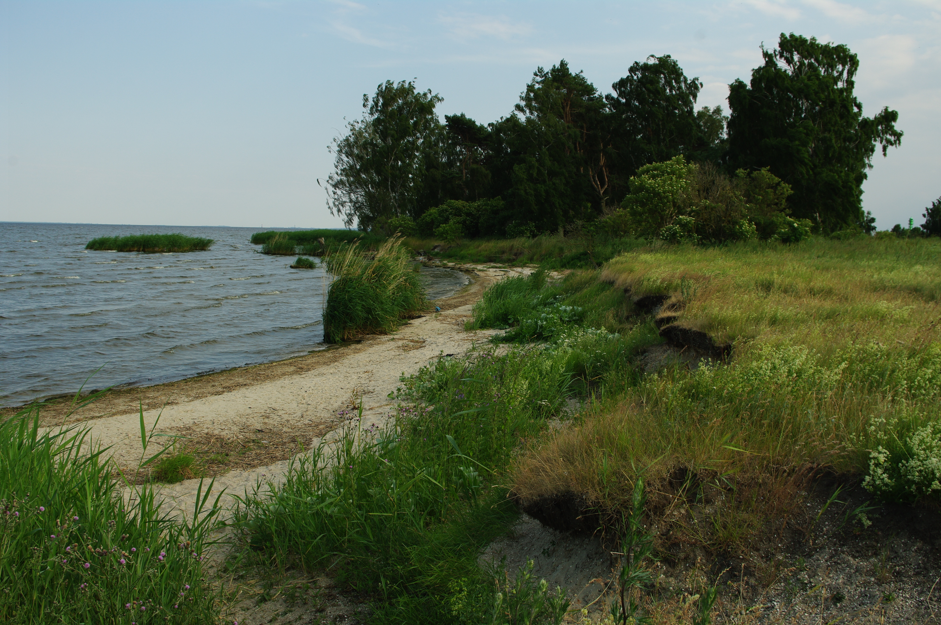 Lagoon of Szczecin seen from Karsibór Island